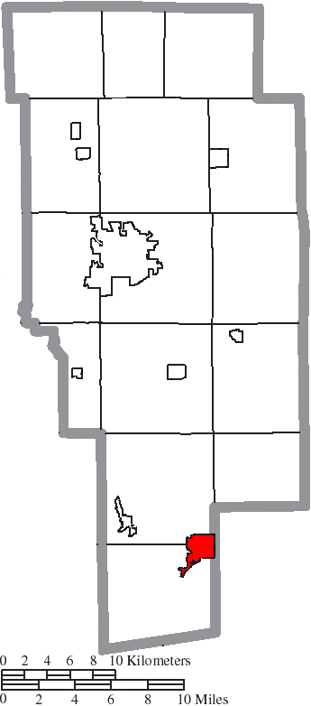 Map of the municipal and township boundaries of Ashland County, Ohio, United States, as of the 2000 census, with the location of the village of Loudonville highlighted. Township borders are shown only in unincorporated areas in order to differentiate incorporated and unincorporated areas more clearly.